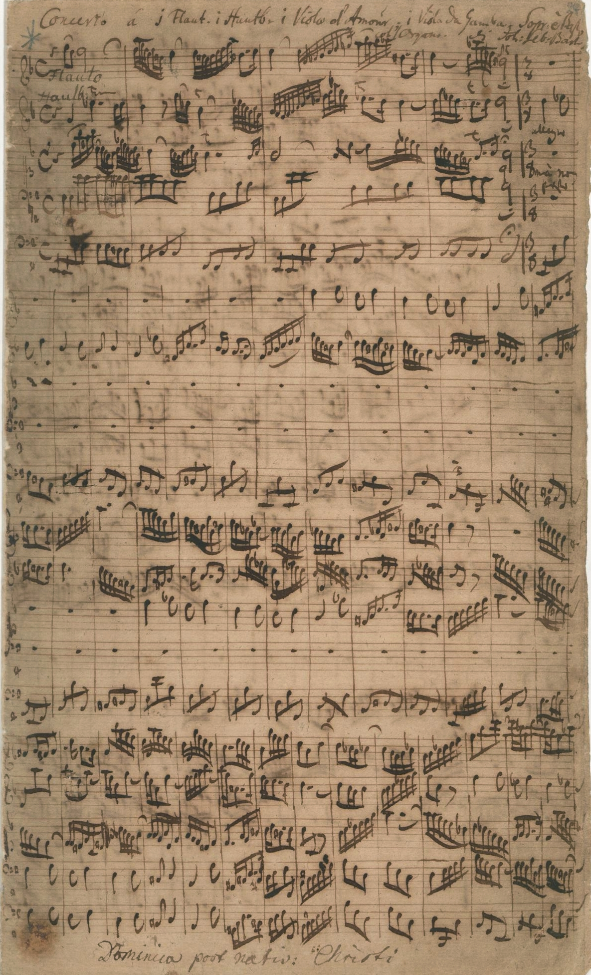 Autograph manuscript of the opening Sinfonia from Cantata BWV 152, Tritt auf die Glaubensbahn